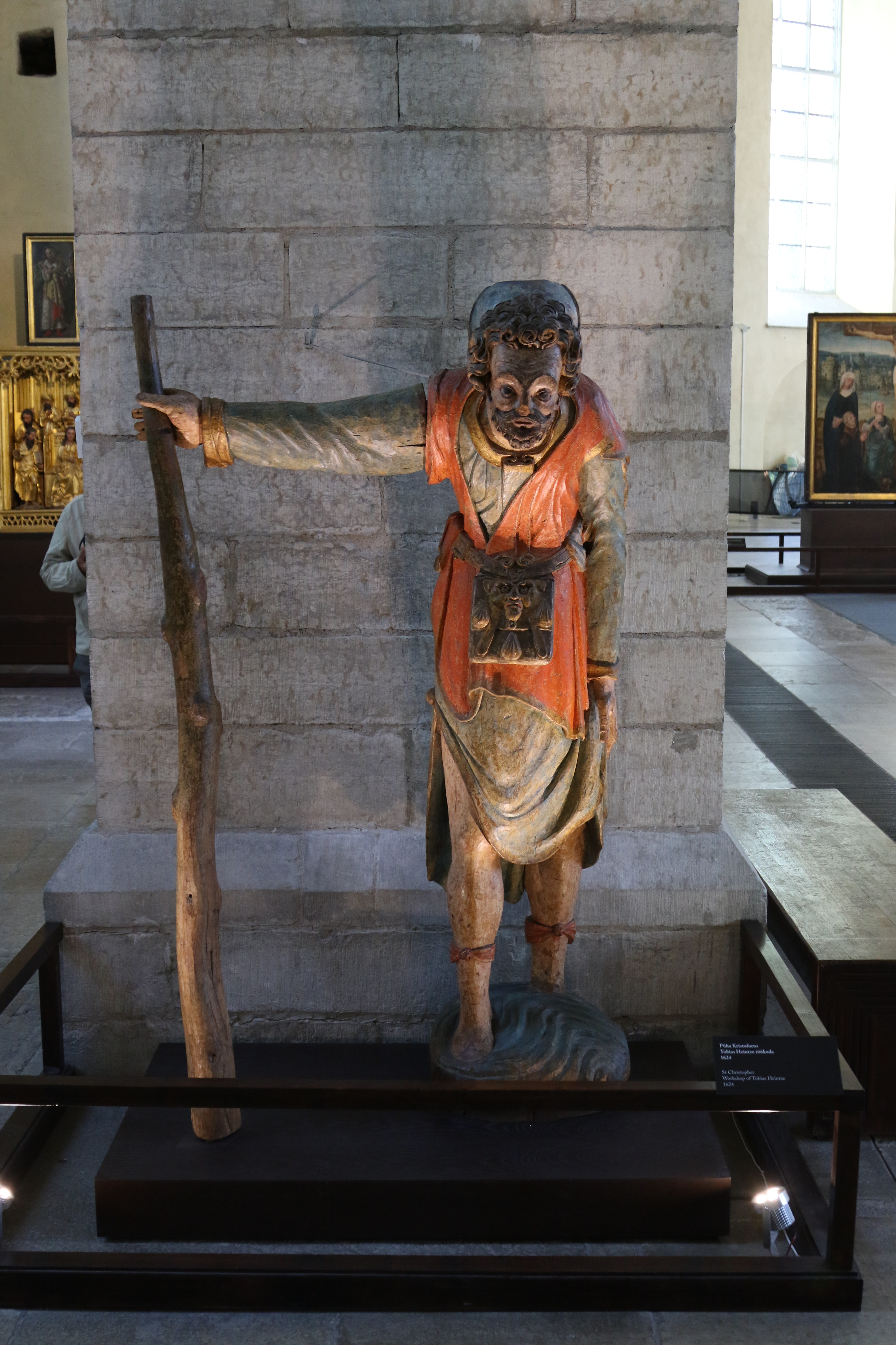 Workshop of Tobias Heinze 1624